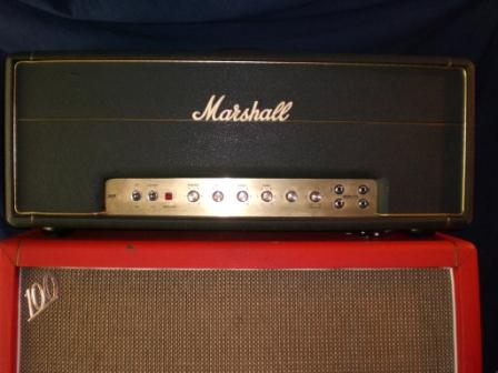 This picture shows a very rare Marshall Major built in 1971, in nearly perfect, original condition. It's located in Eberbach ( near Heidelberg - Germany ) - it's in private hands.